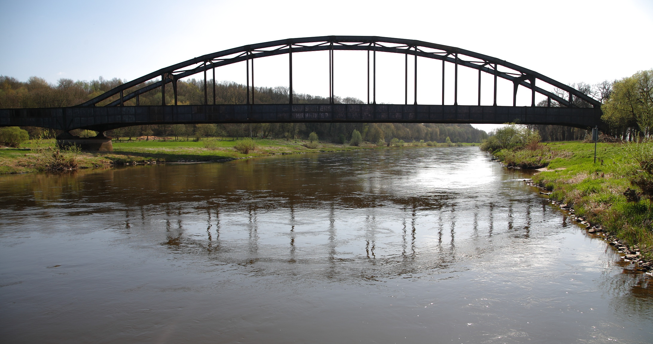 Bridge crossing Weser River near Höxter, District of Höxter, North Rhine-Westphalia, Germany.